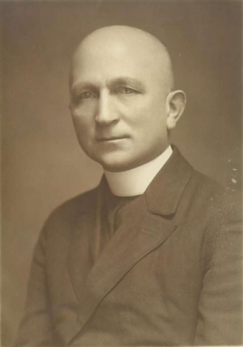 Franc Kimovec (1878-1964)